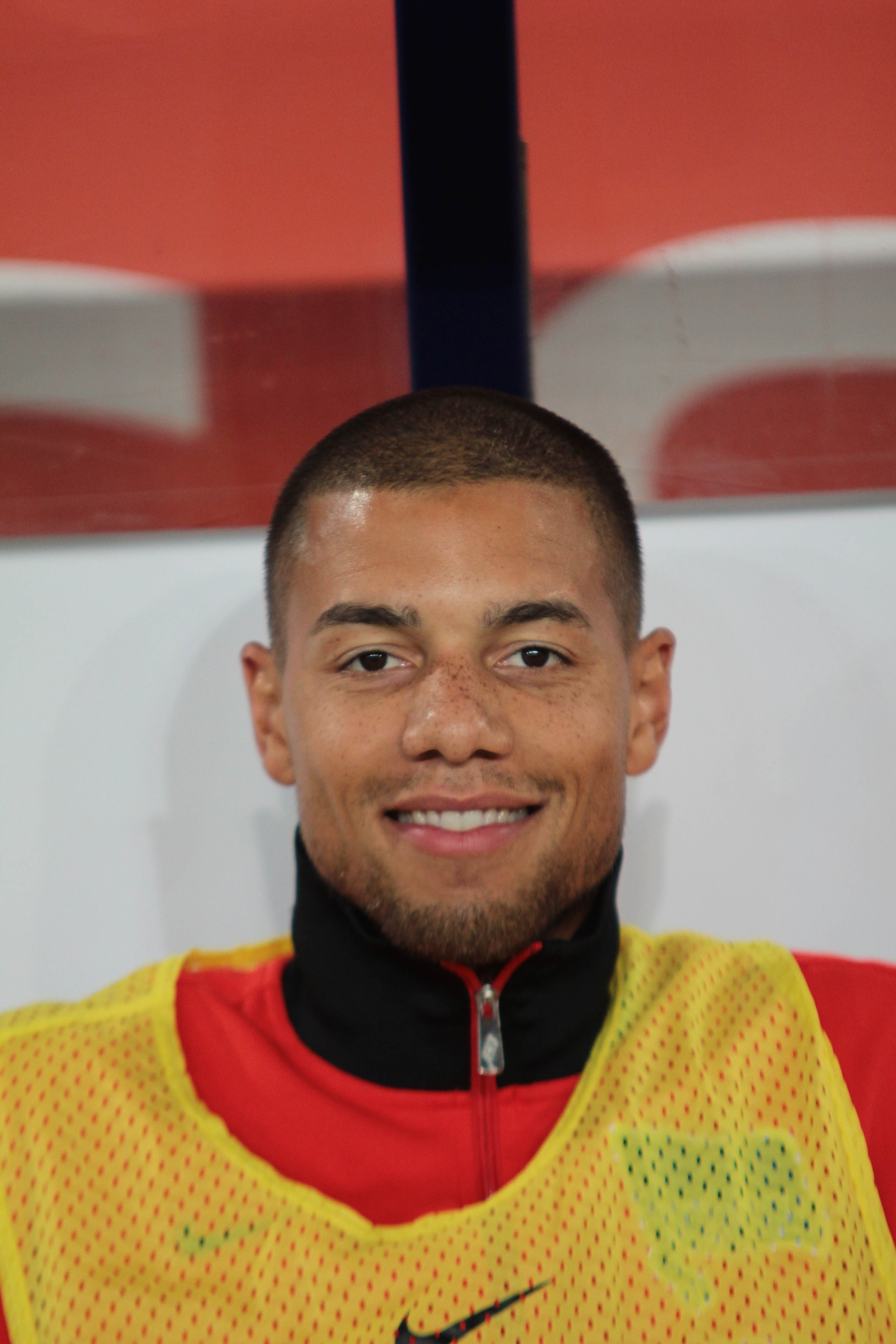 German-Cameroonian footballer Marcel Ndjeng, Hertha BSC